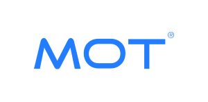 MOT Logo